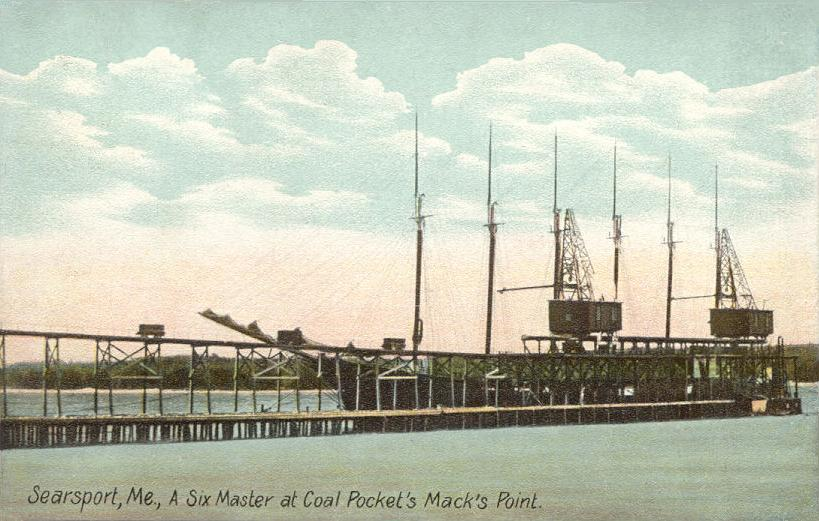 A six-masted schooner at Mack Point, the coal and freight terminal for the Northern Maine Seaport Railroad (a line opened in 1905 by the Bangor & Aroostook Railroad) at Searsport, Maine. In the years 1900 to 1909, only 10 six-masted schooners, which delivered coal to run northern Maine locomotives, were ever built.